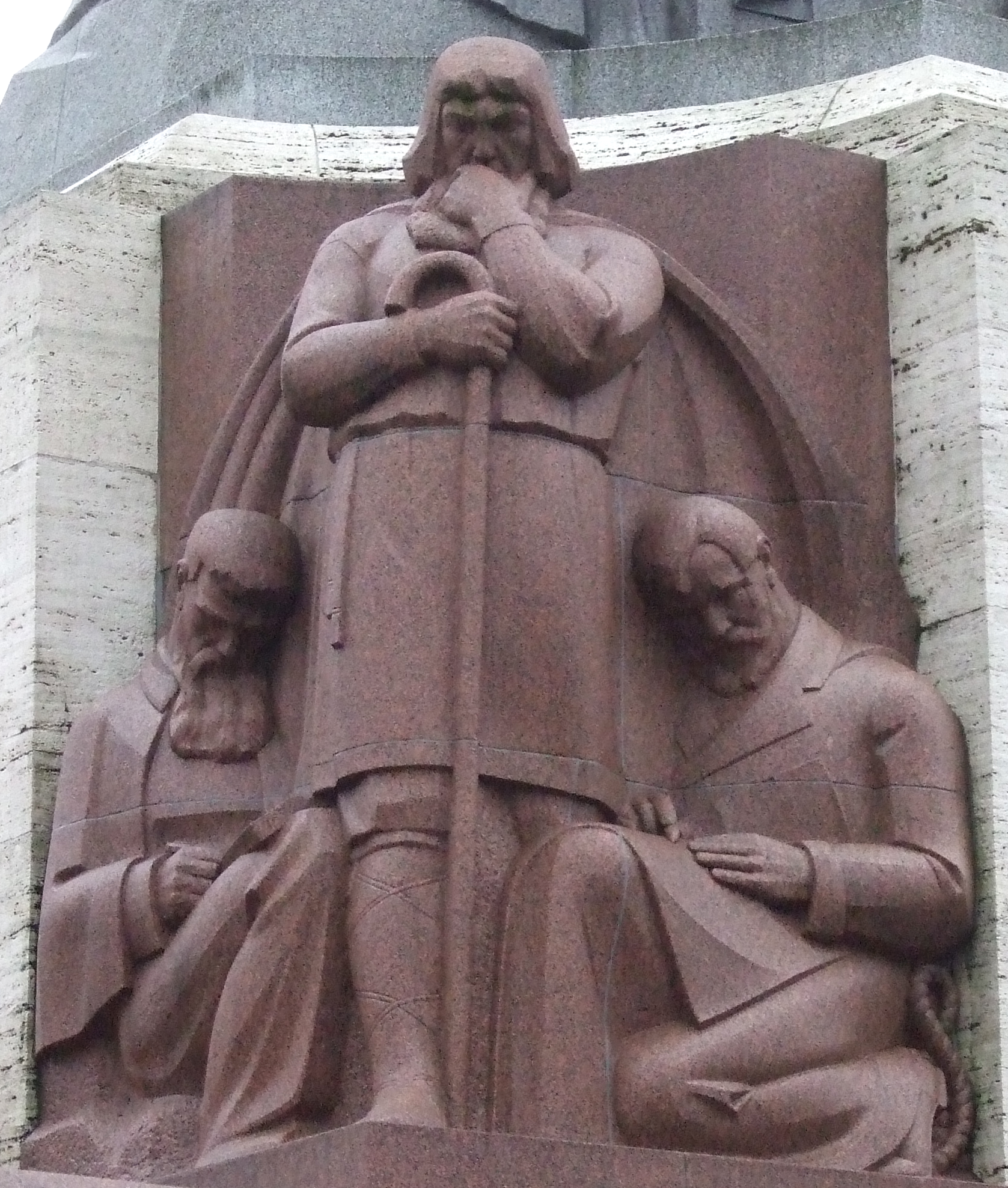 Freedom Monument, Riga, Latvia, "Scholars" figure group. Riga, Latvia.